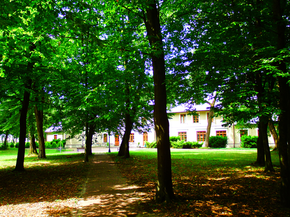 Hotel Rytwiany. Park.